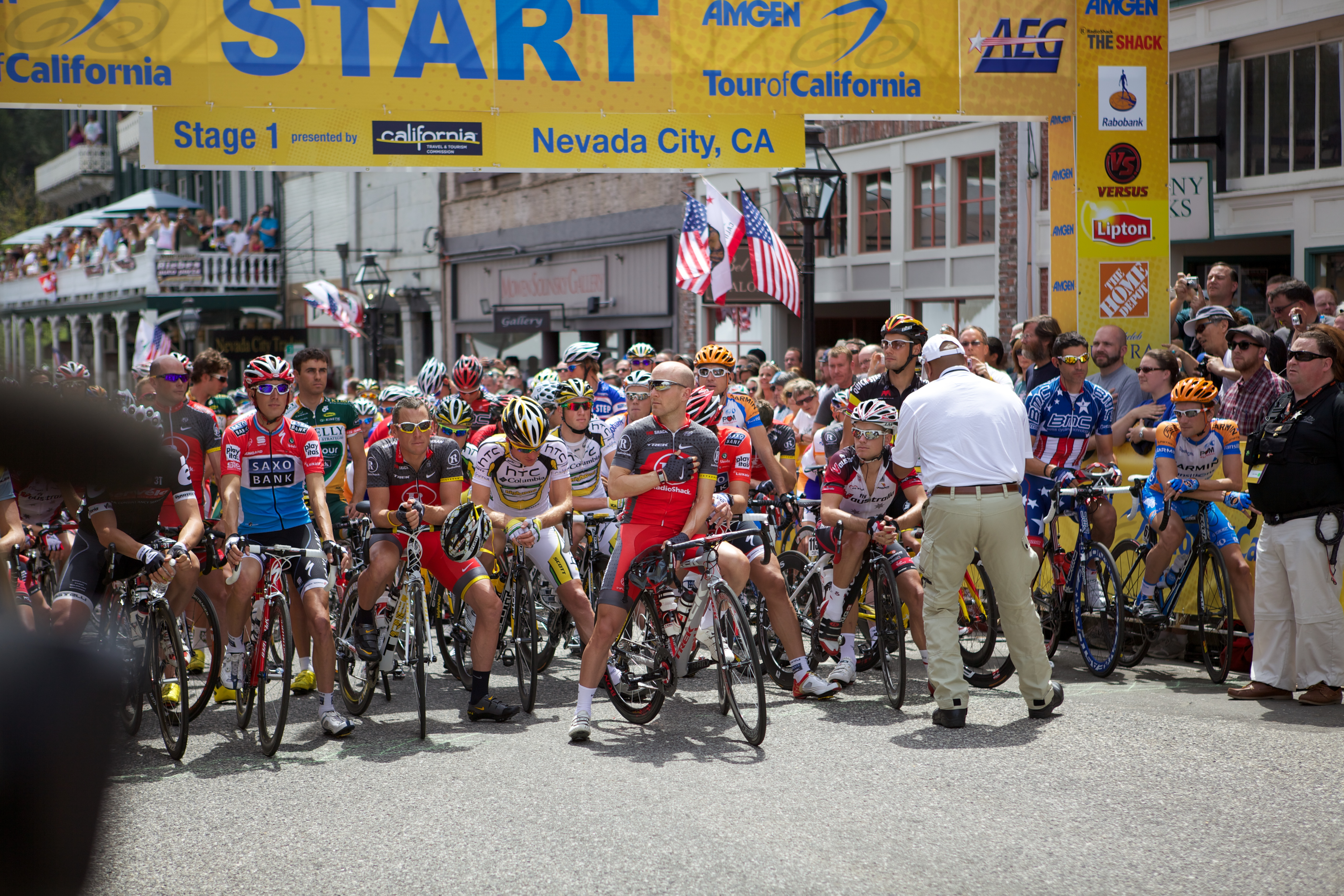 2010 Tour of California, starting in Nevada City.